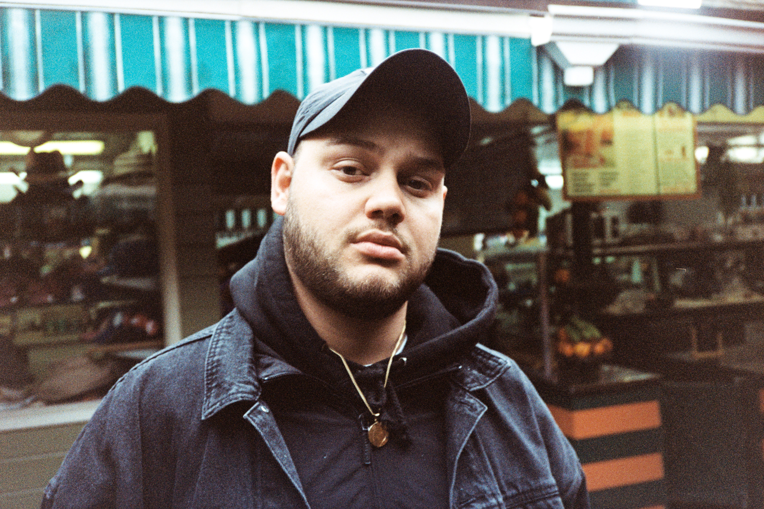 Henne in LA